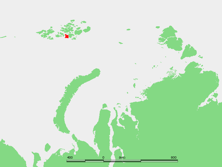 MacKlintok Island